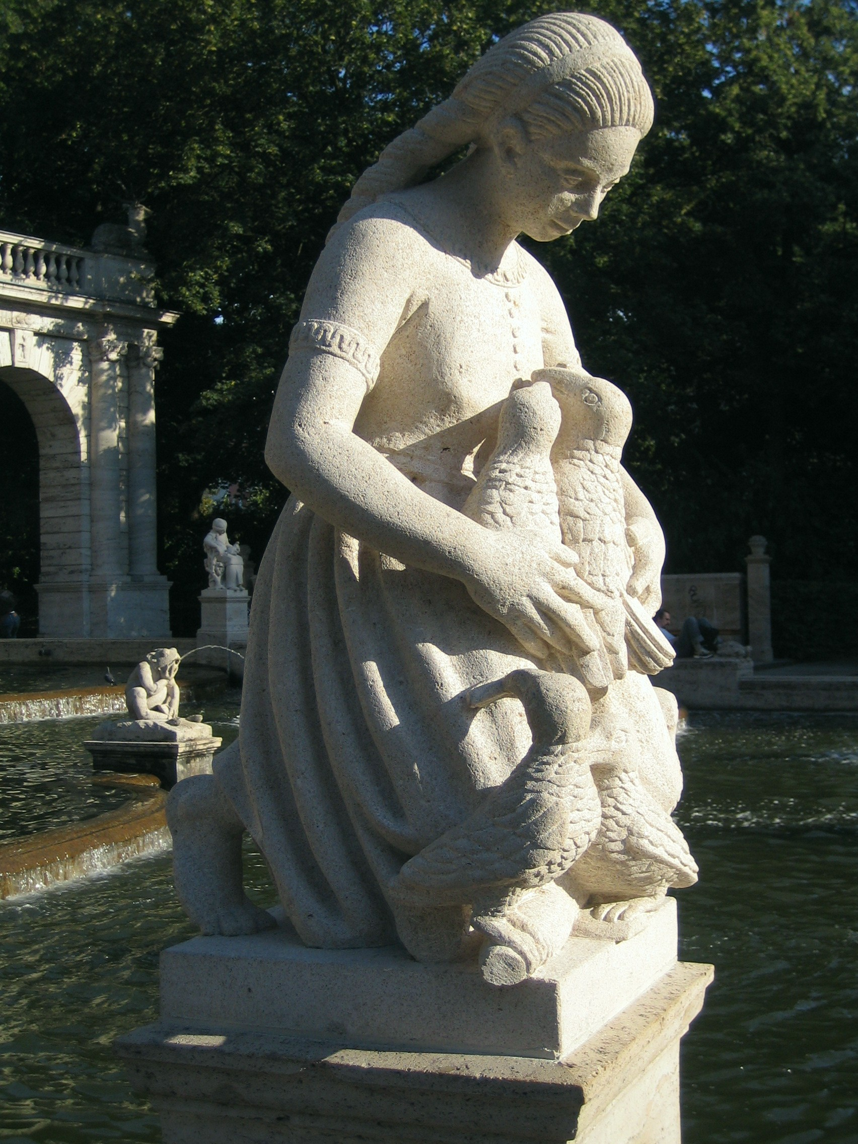 Friedrichshain locality of Berlin: Märchenbrunnen (fairy tale fountain) in the Volkspark Friedrichshain park, sculpture on the Brothers Grimm fairy tale «The seven Ravens» by Ignatius Taschner.